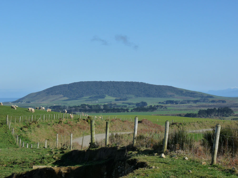 Pahia Hill visible from Sandhill Point to Bluff at sea level. A unique shape with a 400 acre reserve of bush on the top.